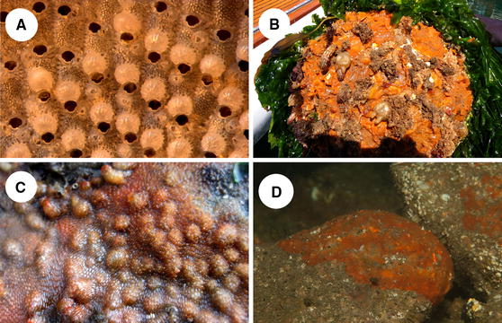 Images of Schizoporella japonica. a Light microscopy image of S. japonica from Greystones Marina, Ireland. b S. japonica fouling a buoy (Plymouth 3, Table 1). c S. japonica colonies on an intertidal rock in Stromness, Orkney. d Underwater photograph of S. japonica on boulders in Lerwick, Shetland